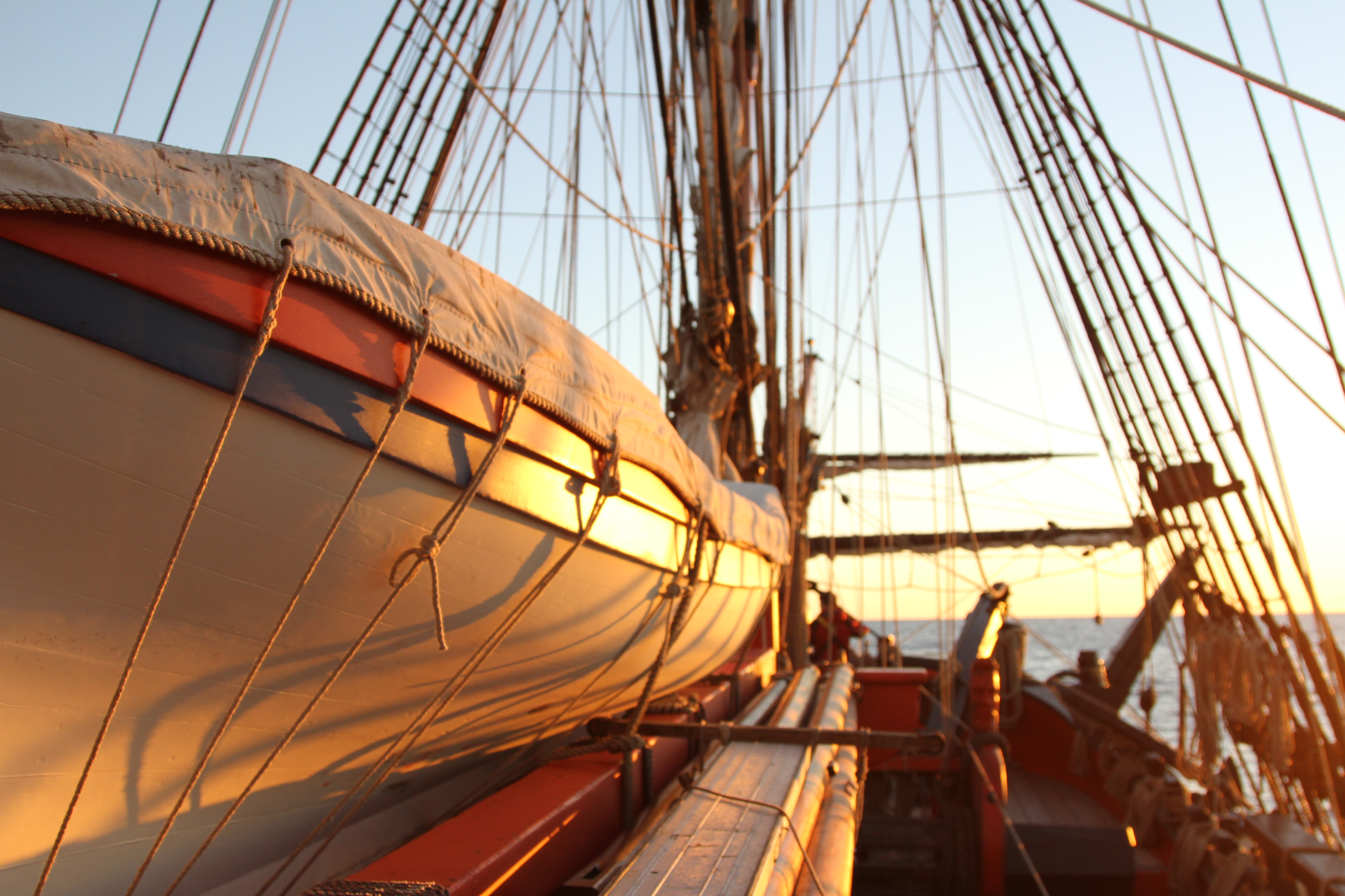 The pinnace aboard the Australian replica of Cook's vessel HMB Endeavour. The pinnace was the vessel traditionally used to ferry the officers and gentlemen about. This one is stored above the waist of the ship, between the main- and foremasts.